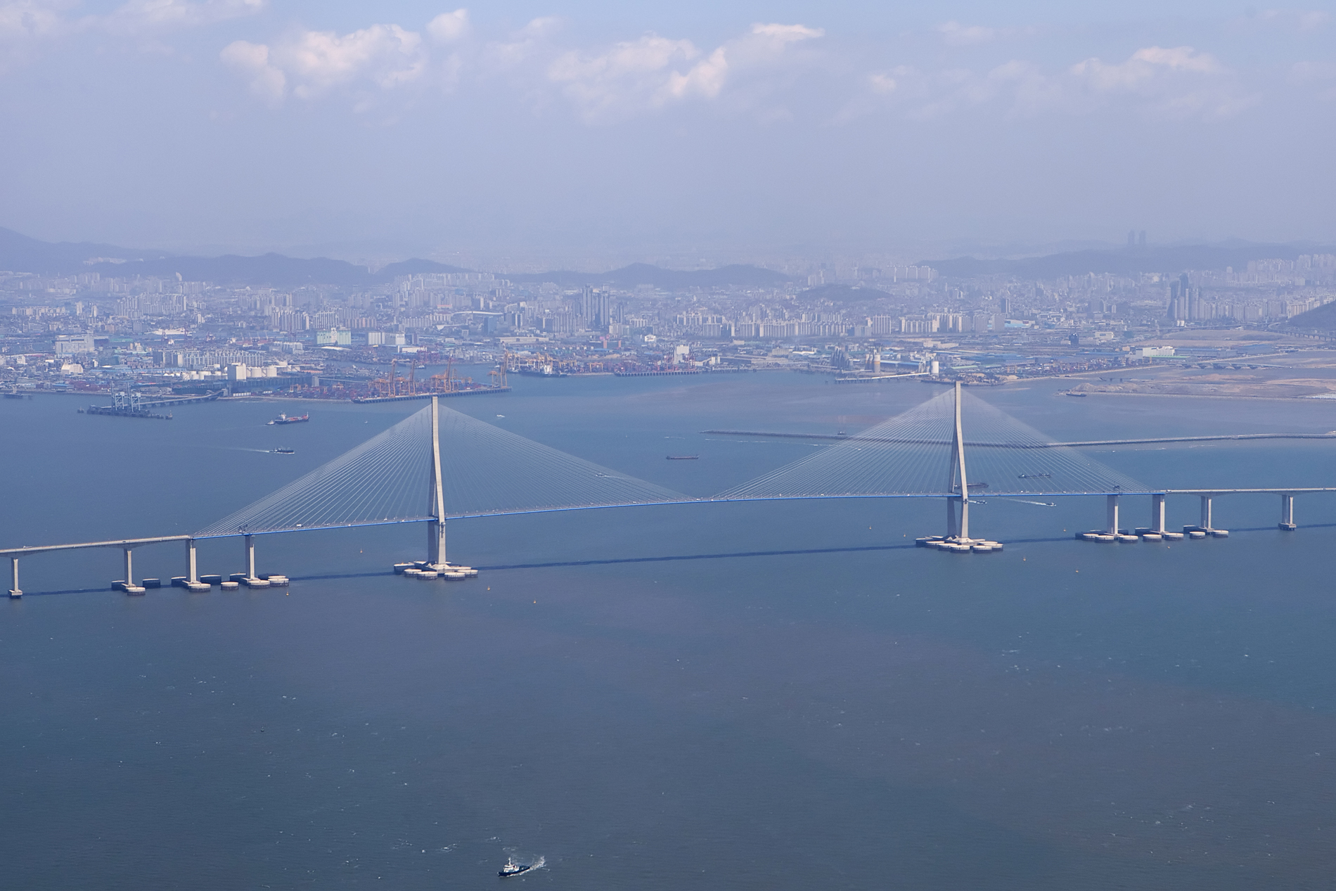 taken from ANA A320 while landing on Incheon Airport